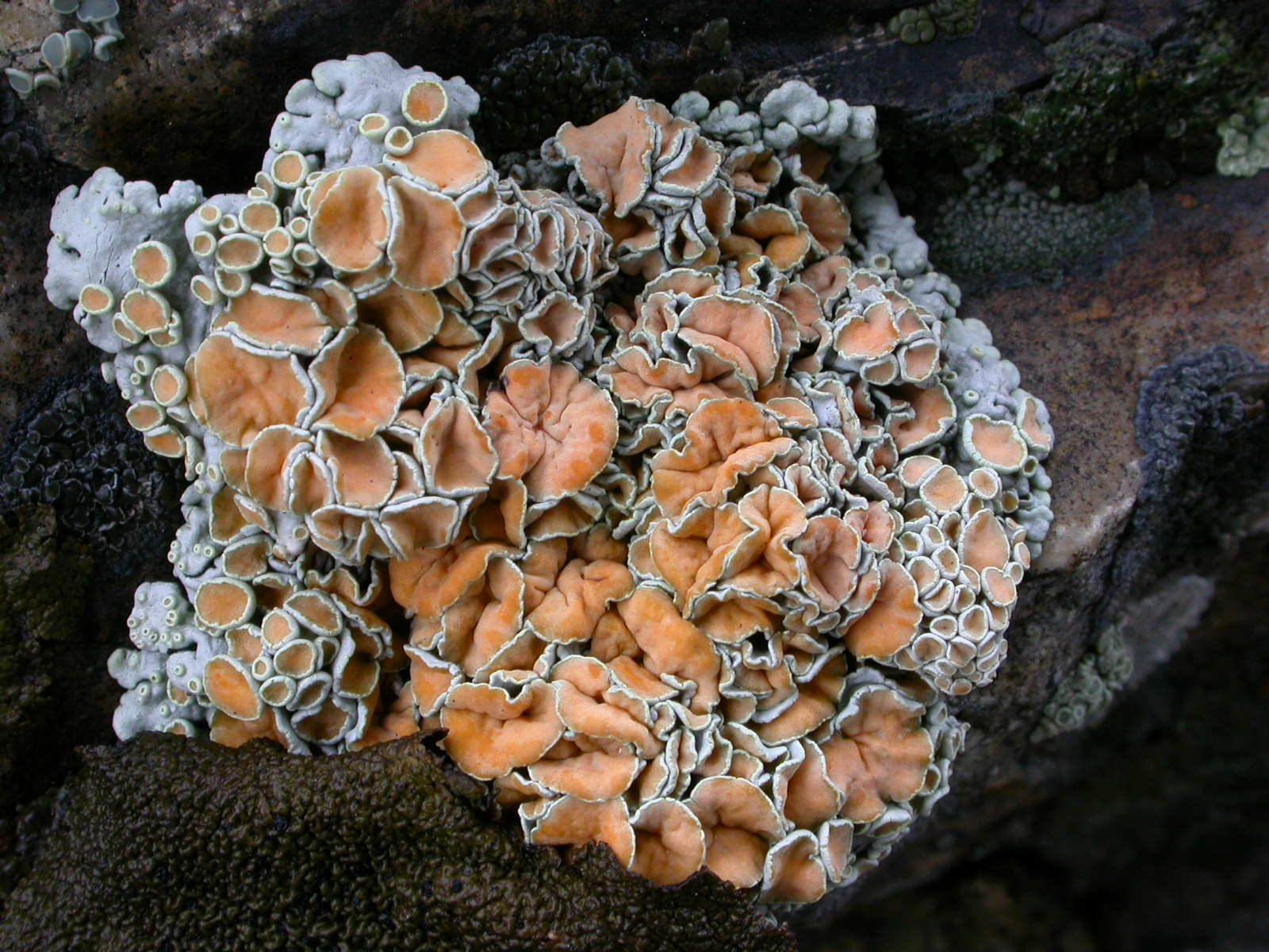 The lichen Rhizoplaca chrysoleuca (Sm.) Zopf. Specimen photographed in Mount Kobau, Okanogan, BC, Canada.